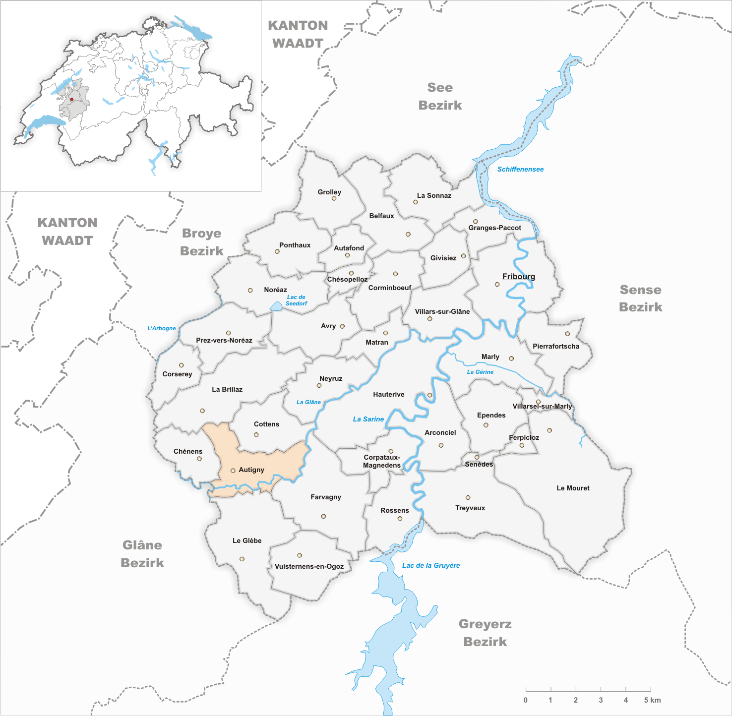 Municipality Autigny